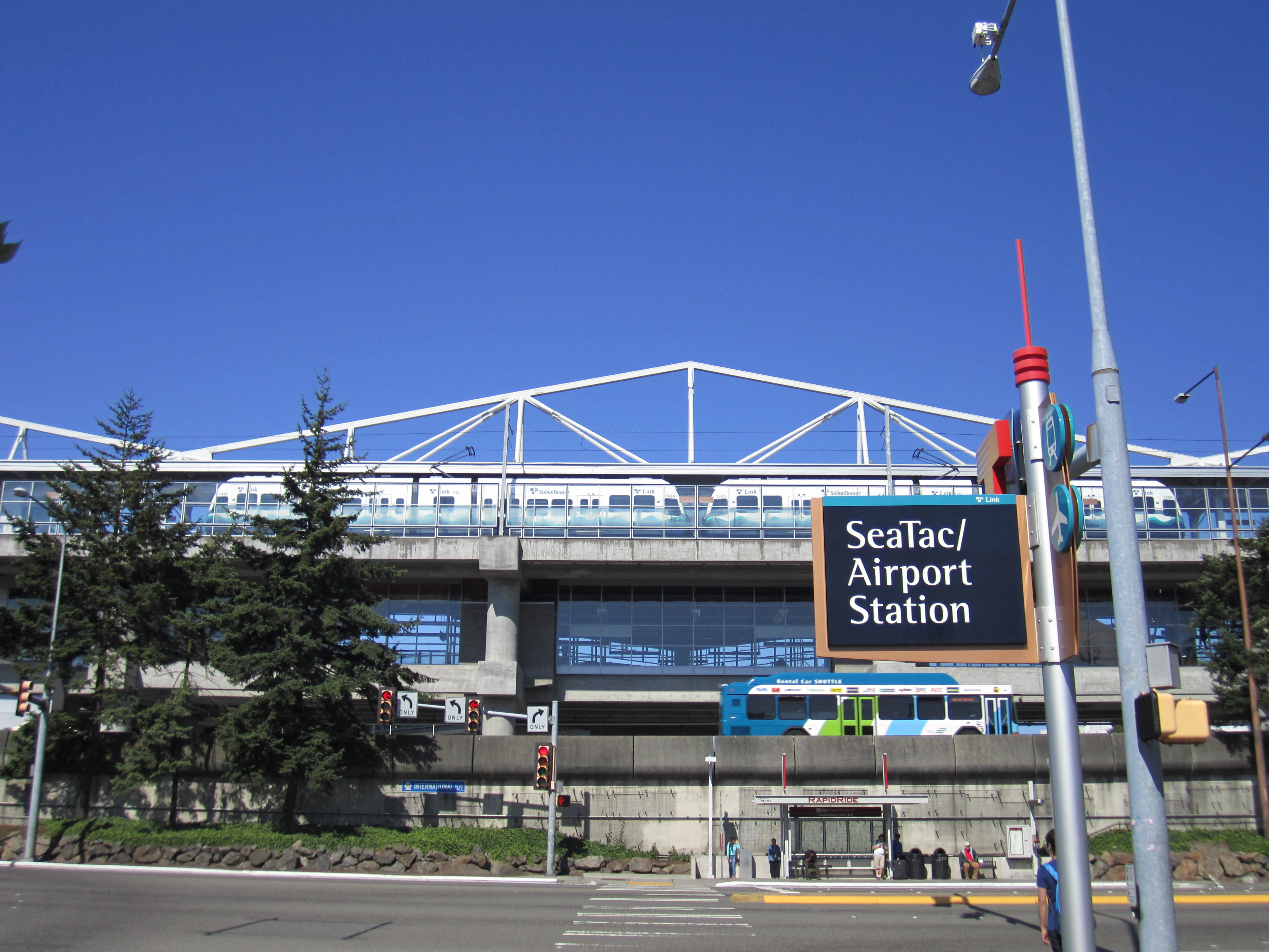 The SeaTac/Airport Link station, as viewed from the east sidewalk of International Boulevard (State Route 99) in SeaTac, Washington.